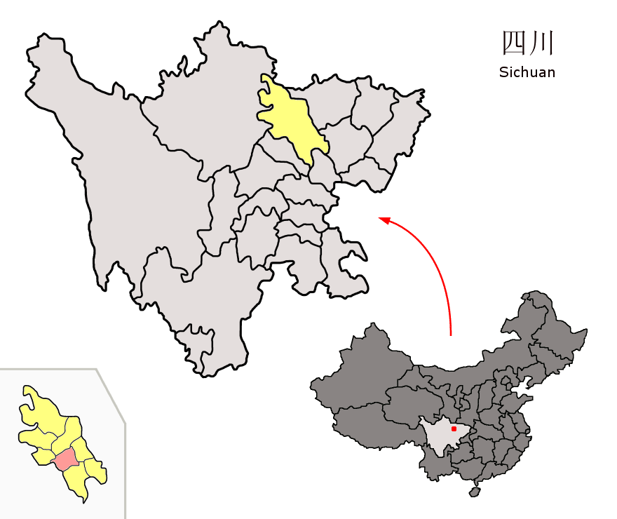 Location of Mianyang Districts (pink) and Prefecture (yellow) within Sichuan province of China Map drawn in october 2007 using various sources, mainly : Sichuan province administrative regions GIS data: 1:1M, County level, 1990 Sichuan Counties map from